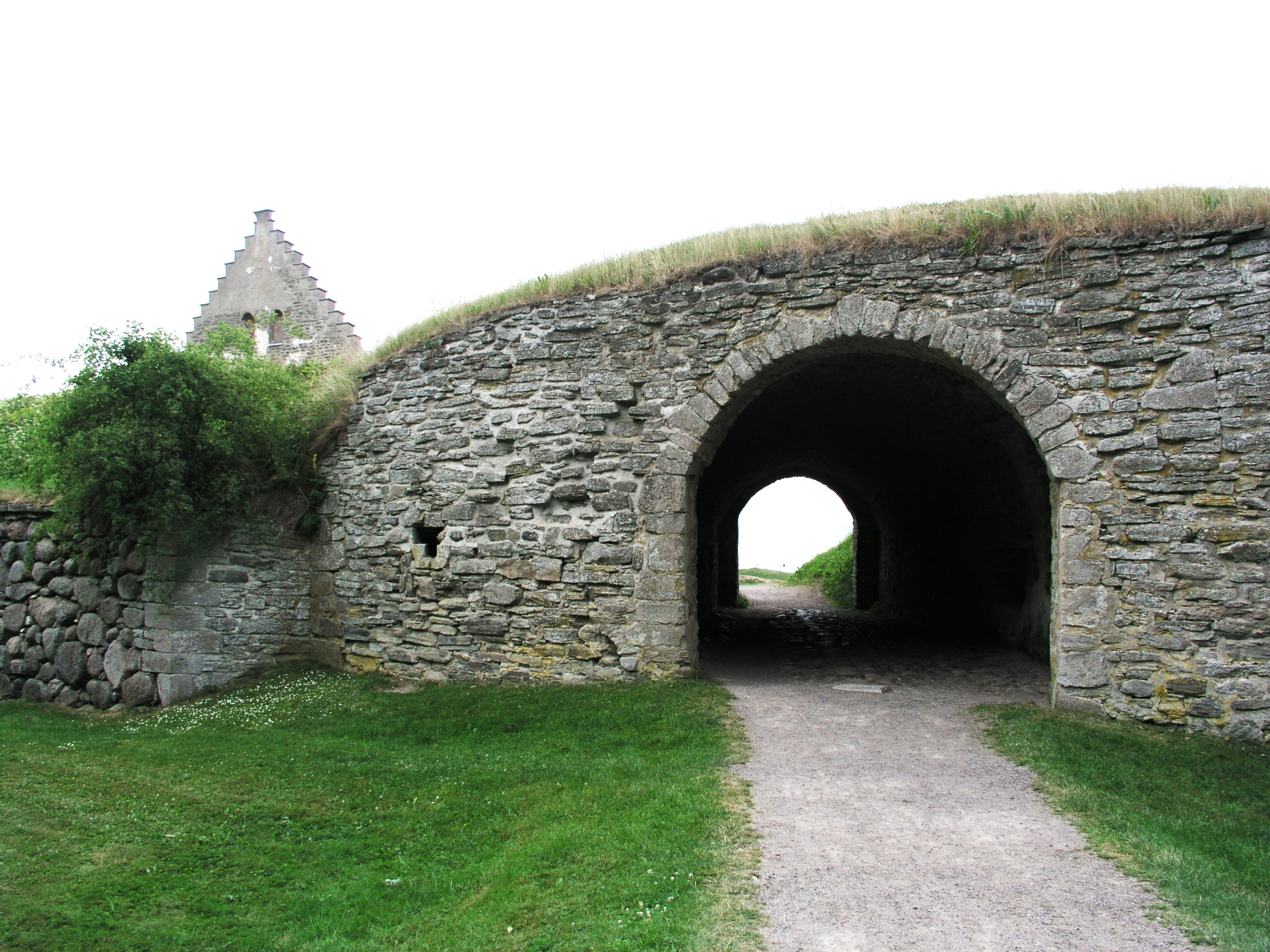 Visingsborg, old castle on the isle of Visingsö, Sweden. Entrance.